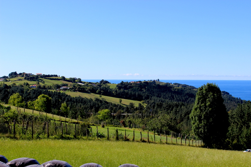 Itxaspe Itziartik ikusita, 2020ko Abuztua Irudi hau Wikibizi kanpainaren baitan igo da, Euskal Wikilarien Kultura Elkarteak 2020an deitutako argazki lehiaketa hirukoitza. Helburua, Euskal Herria hobeto ezagutzen laguntzea da.Lagundu zuk ere irudi hau dagokion artikuluetan txertatzen.